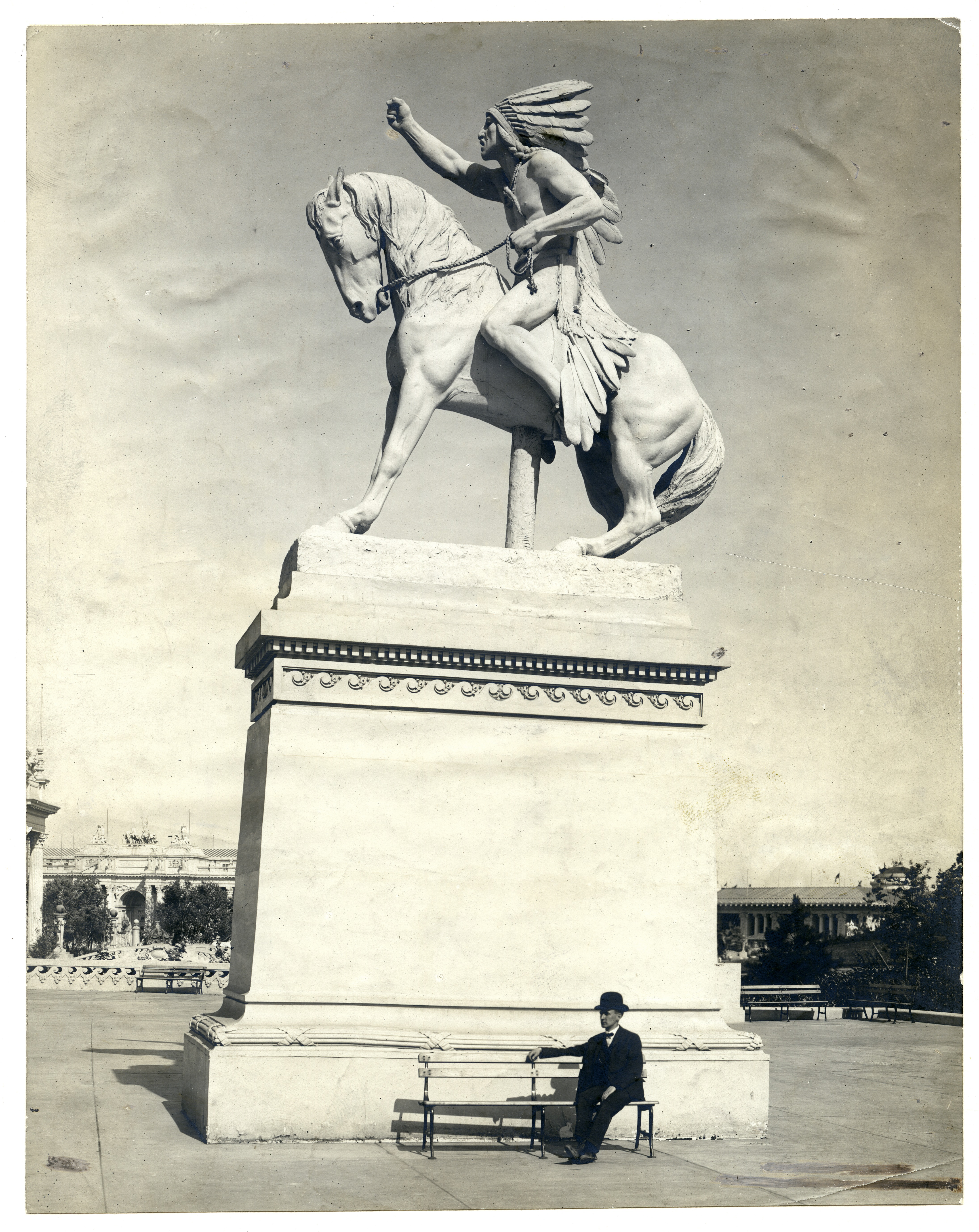 Vertical, sepia photograph showing a statue of an American Indian seated on a horse on top of a large pedestal. There is a man in a dark suit and hat seated on a bench at the pedestal's base. Title: Sculpture: Protest of the Sioux by Cyrus E. Dallin.